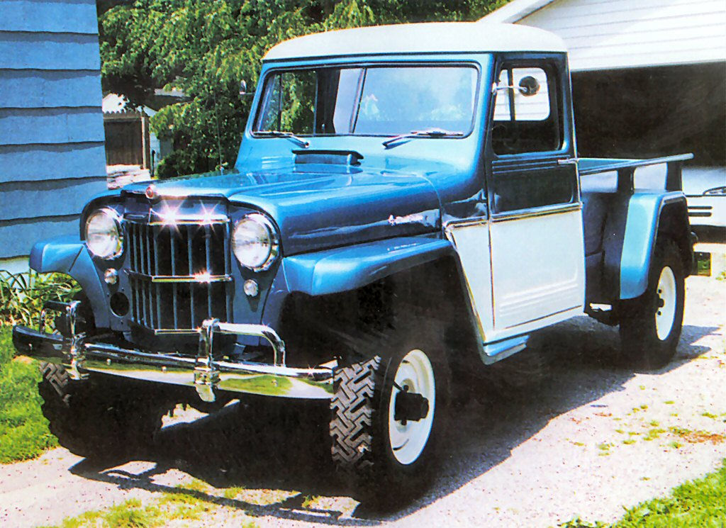 Ask Your Willis Dealer To Demostrate, 4-Wheel-Drive Farm Power